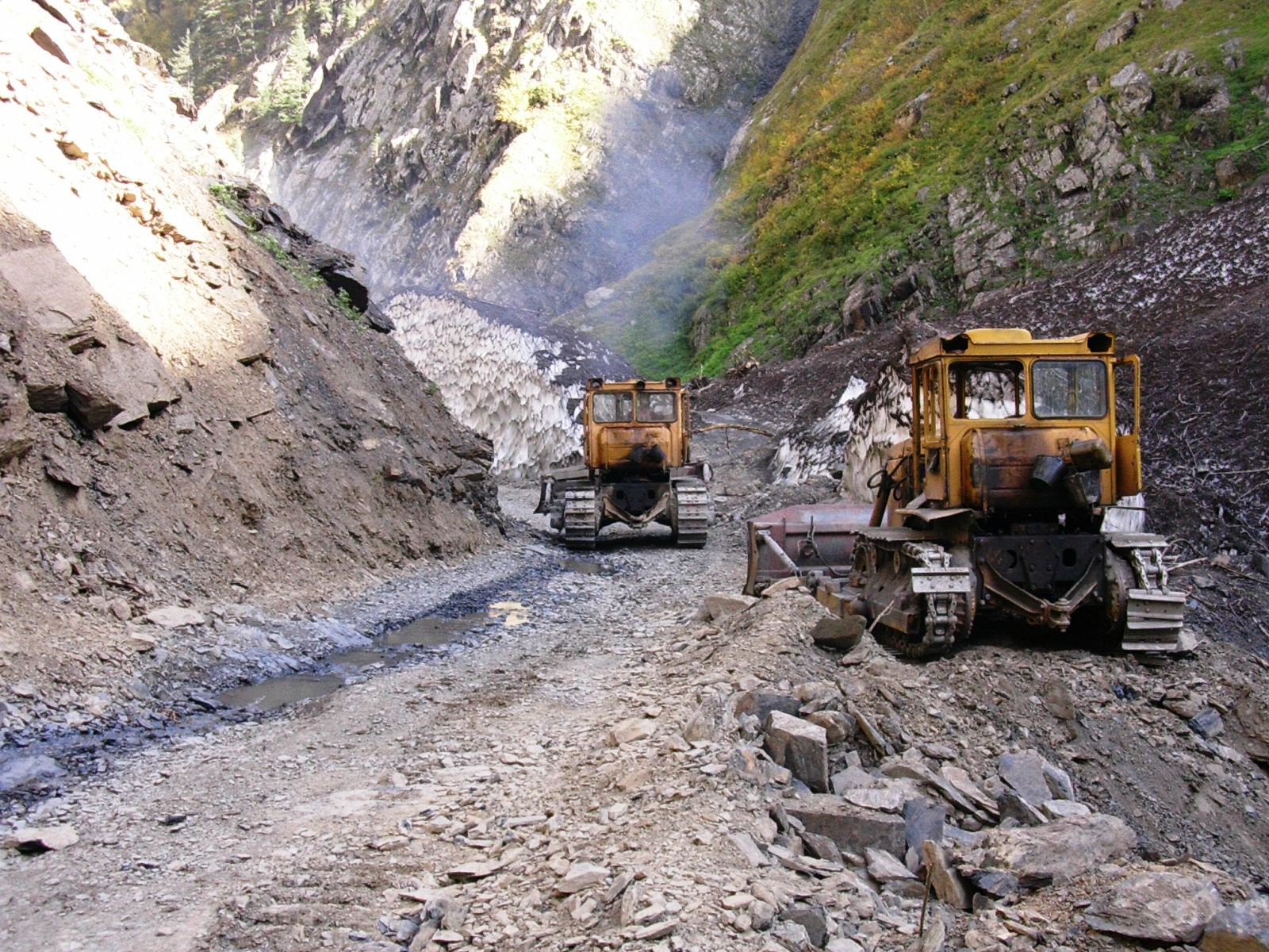 North of Koja Pass